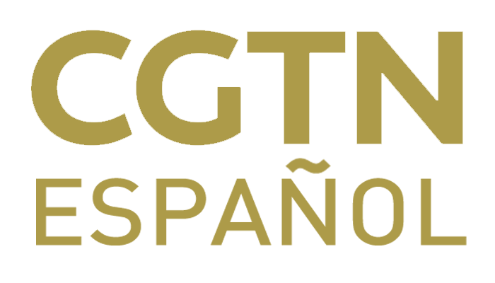 Logo for CGTN Espanol